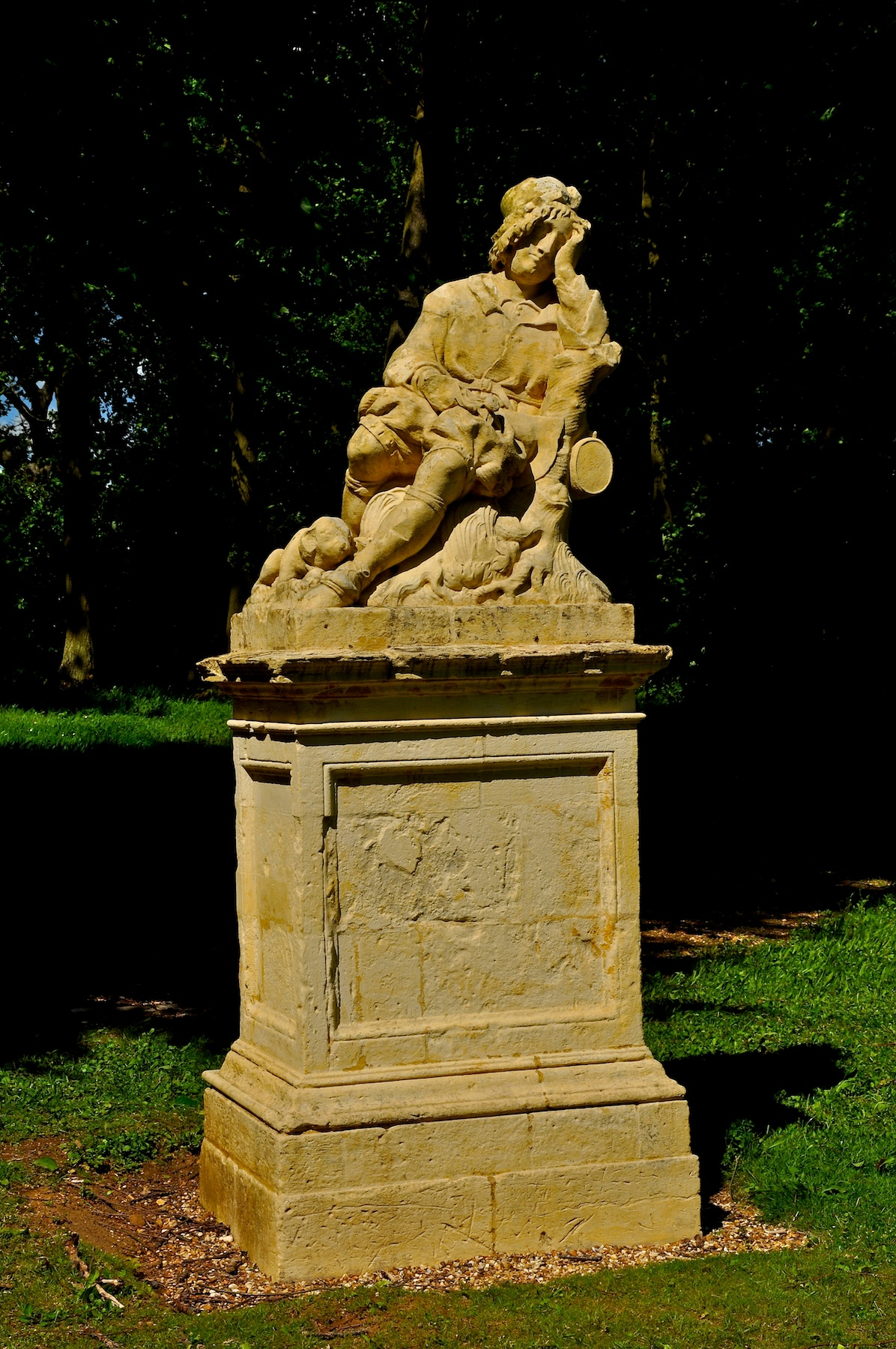 The Circle of the Dancing Faun